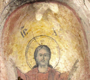 Saint_Nicholas_Church_in_Rakovec.